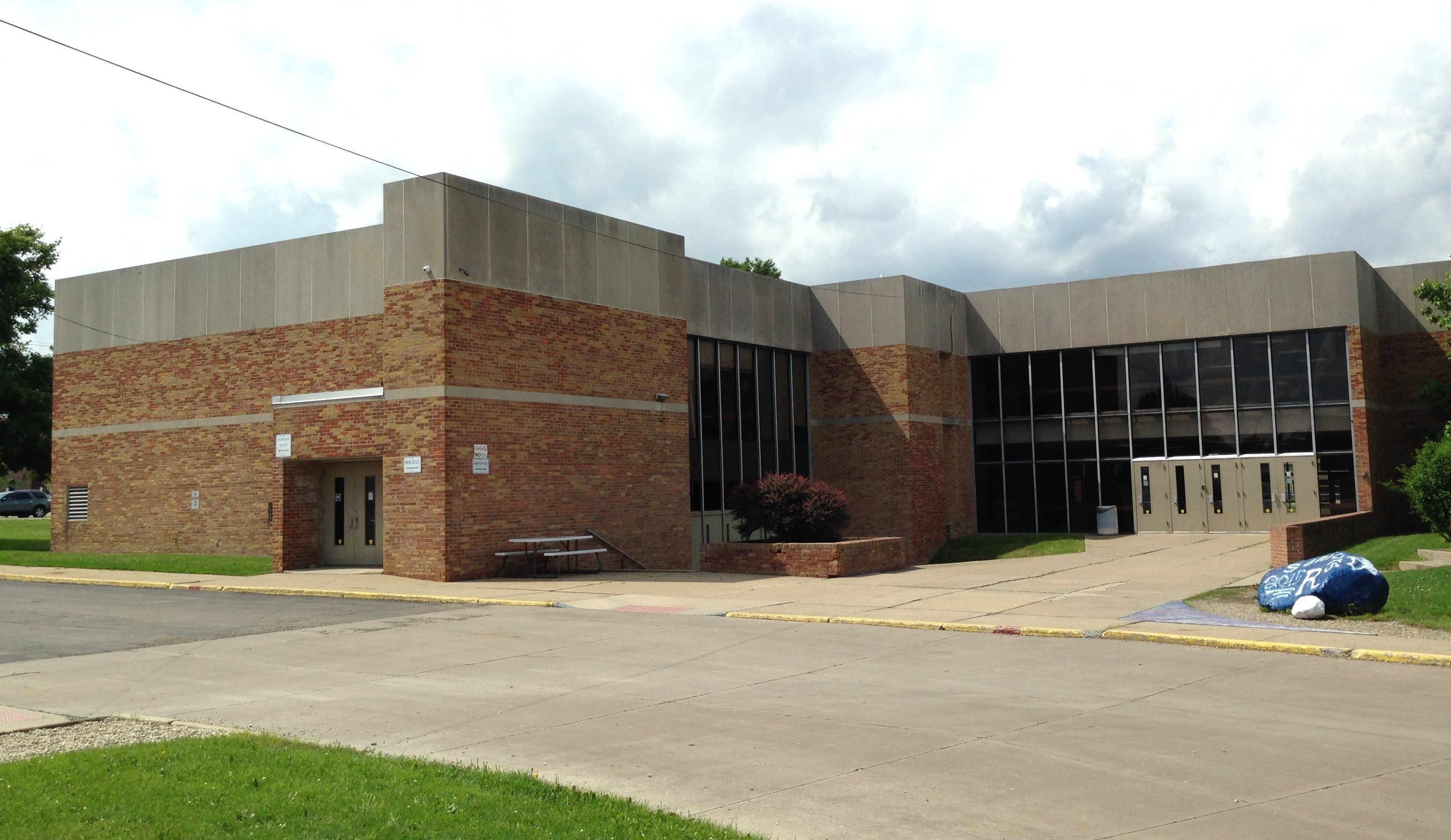 Main entrance to Rootstown High School in Rootstown, Ohio, United States.